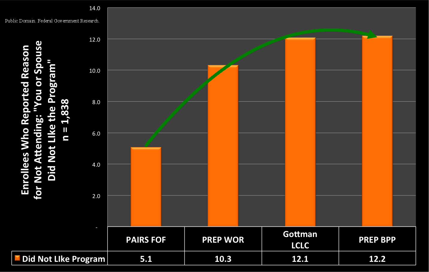 Graph of Supporting Healthy Marriage implementation report data